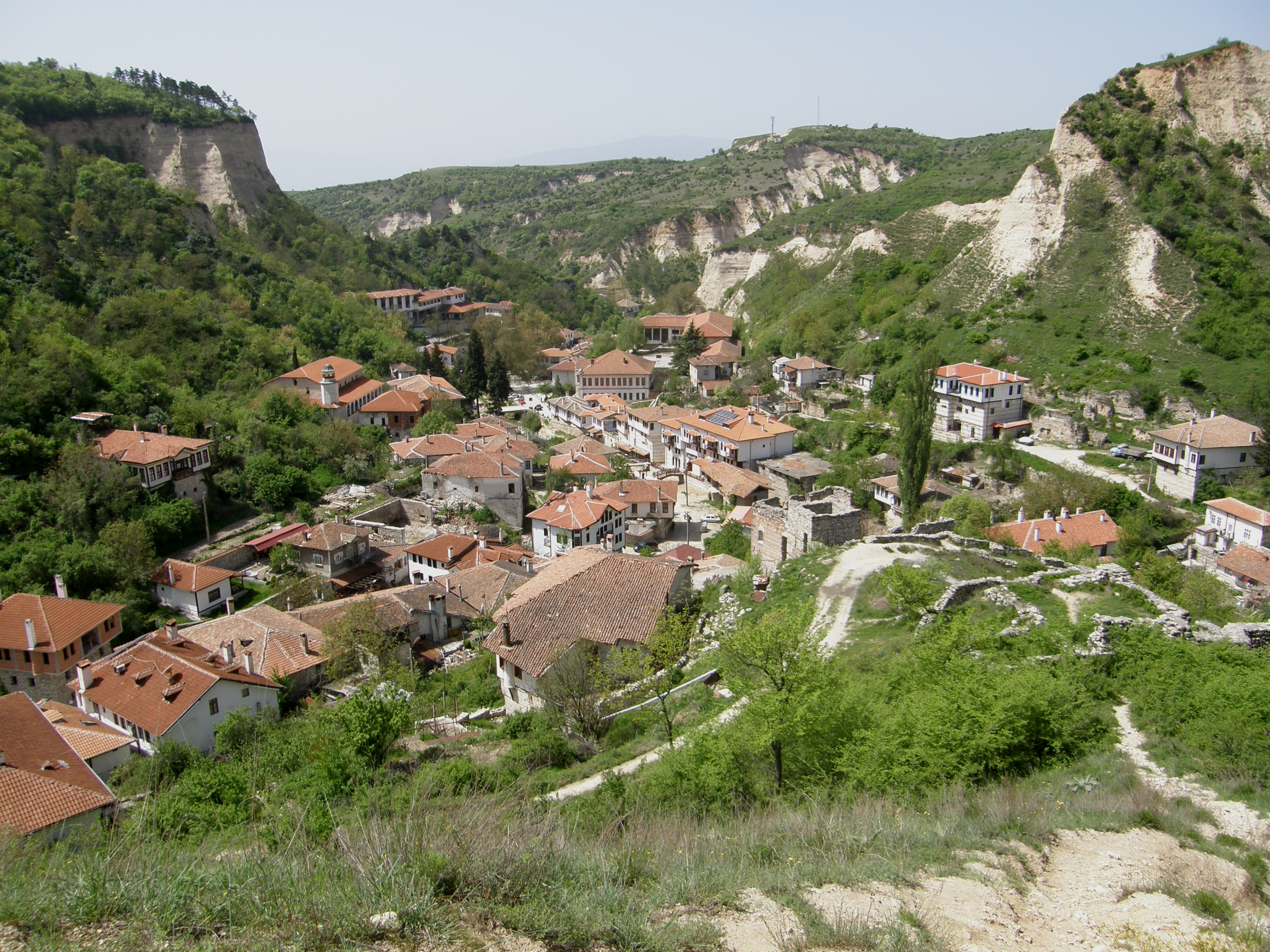 Panoramic view of Melnik, the smallest town of Bulgaria